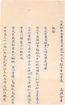 The Convention of Chuenpee (part 1).